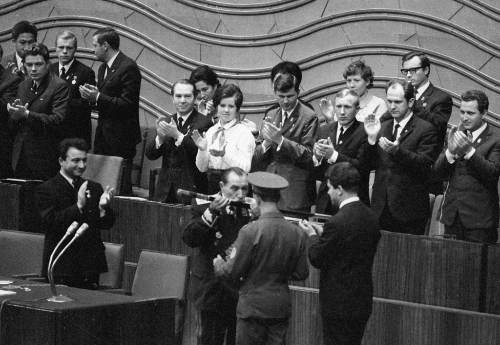 “Budyonny Hands In His Sabre To Komsomols”. Marshal of the Soviet Union Semyon Budyonny handing in his sabre to Komsomols at the 16th Young Communist League Congress.